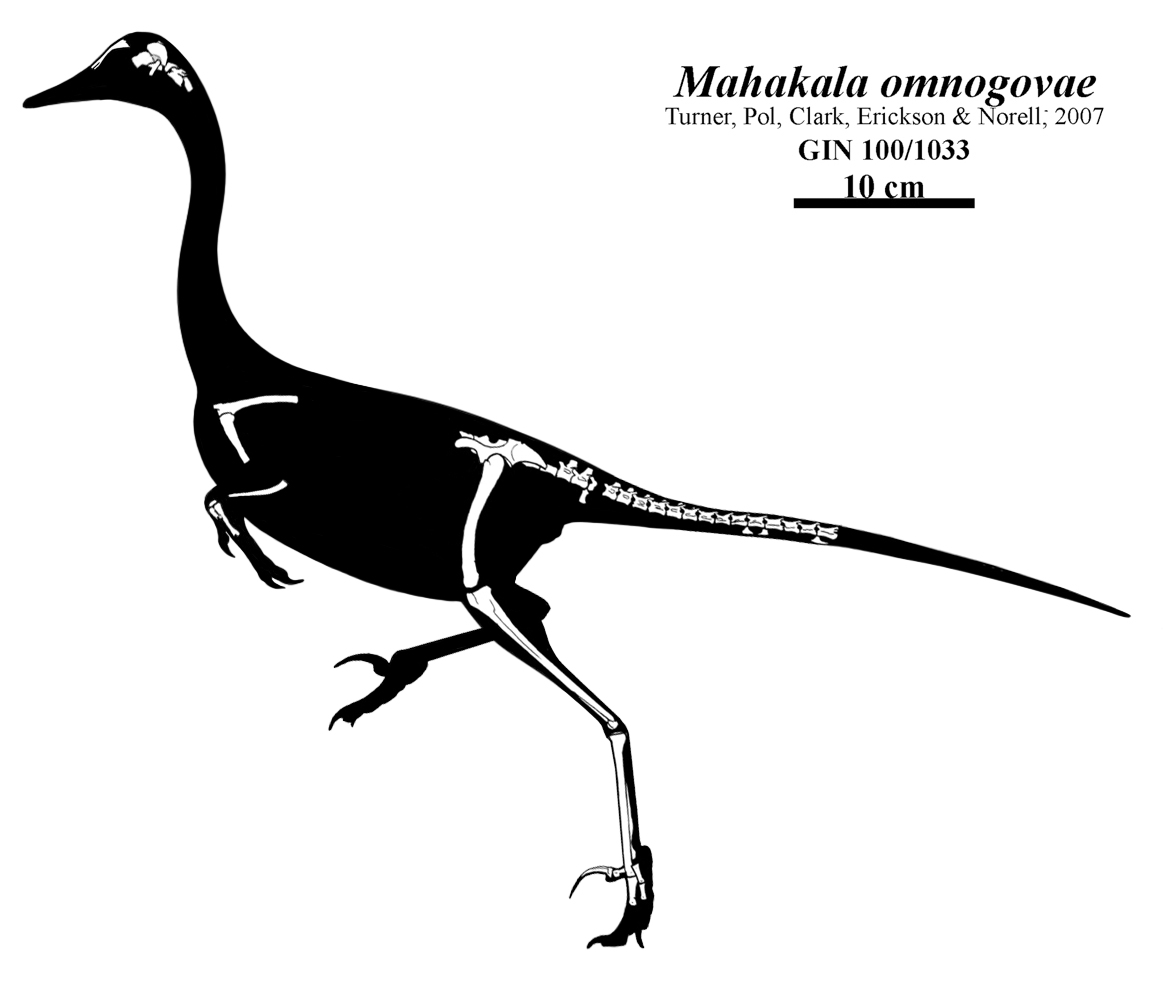 Skeletal reconstruction of Mahakala omnogovae.